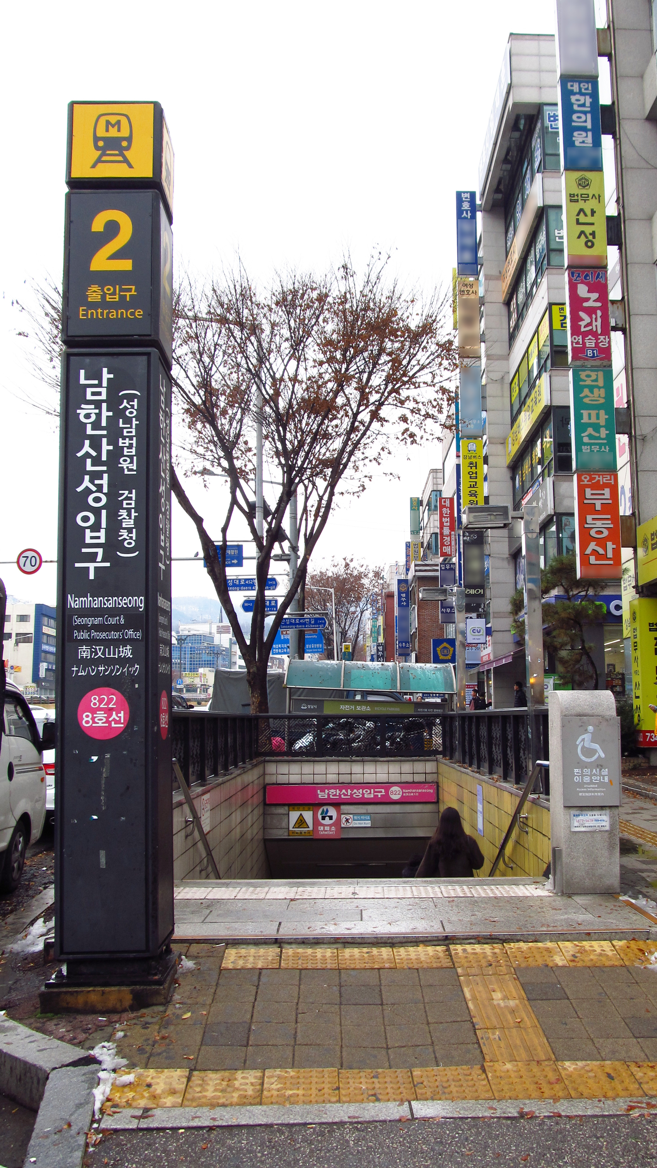 The no.2 entrance to Namhansanseong Station on Seoul Subway Line 8 in Seongnam city, Gyeonggi-do(province), Republic of Korea(South Korea)